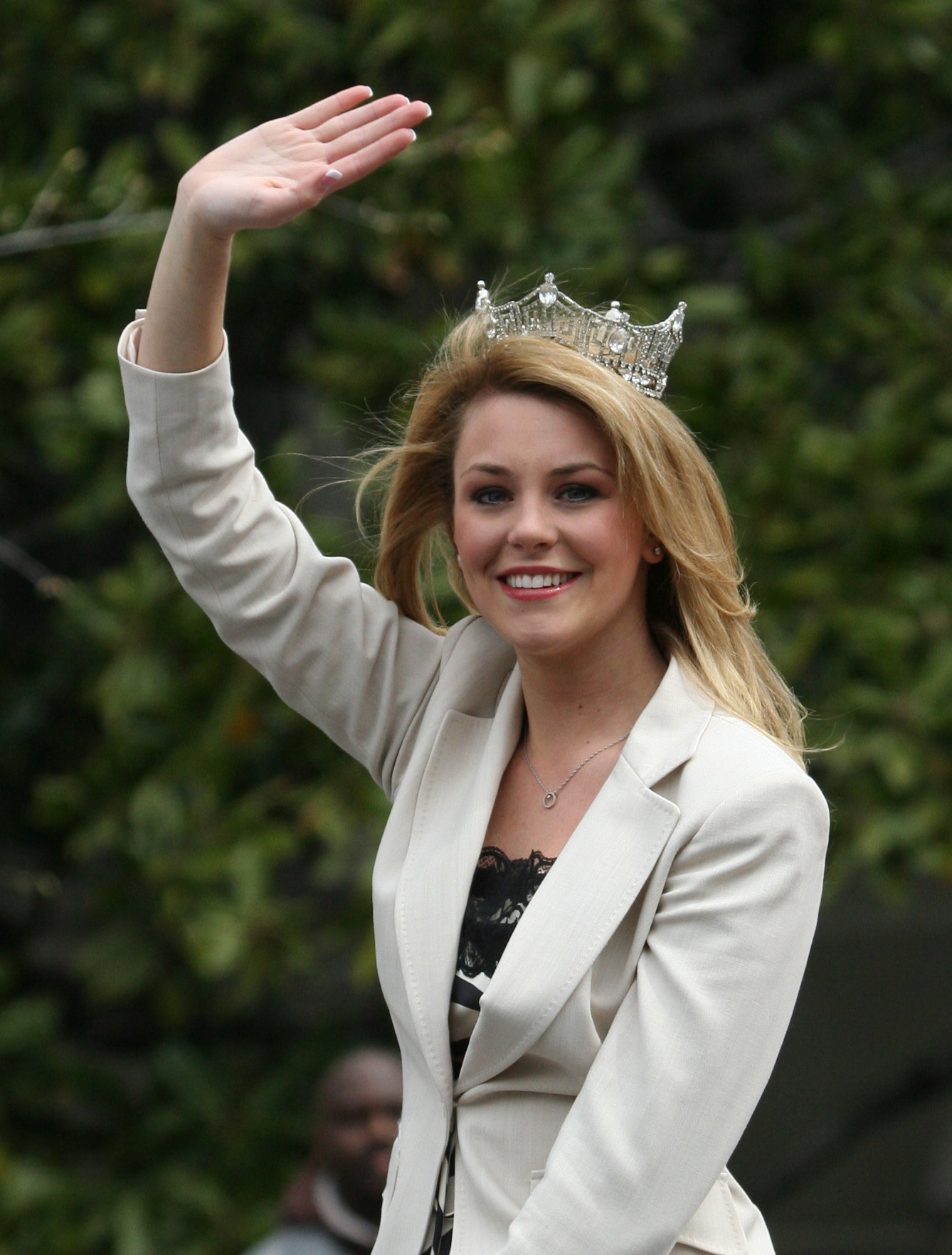 Miss America 2007, Lauren Nelson appearing in a parade associated with the National Cherry Blossom Festival in Washington, DC.